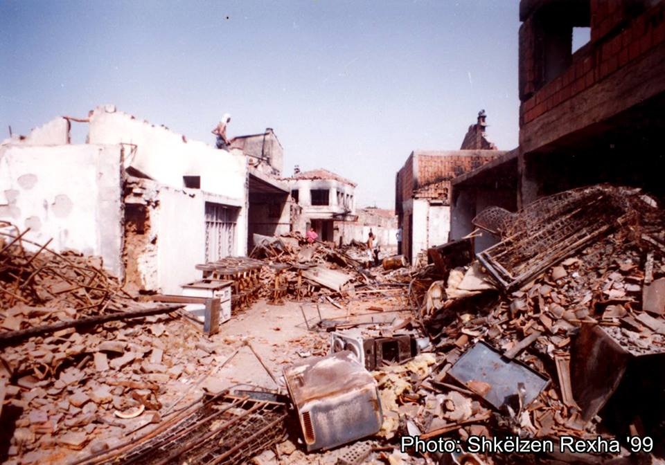 The Old Bazaar in '99